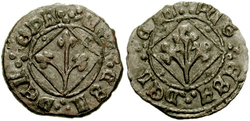 Spain, Castille and Leon. Ferdinand V, as king of Castille and Leon. 1474-1504. Æ Half Pugesa (17mm, 2.57 gm). Gerona mint. Coat-of-arms with fleur Coat-of-arms with fleur. C&C 2114. Brown VF, fields smoothed. Scarce.